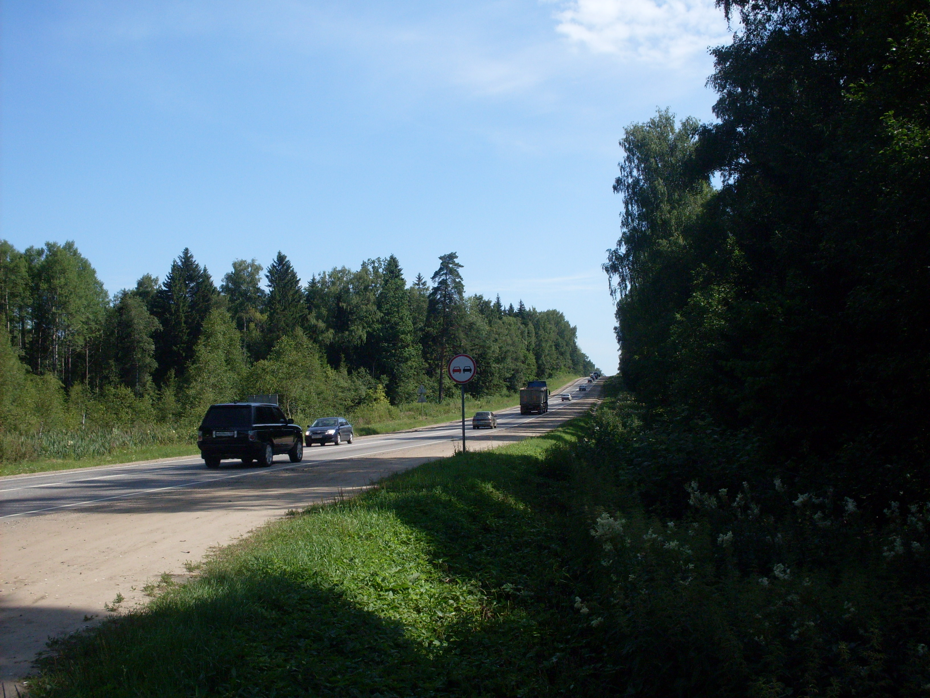 M8 Holmogory